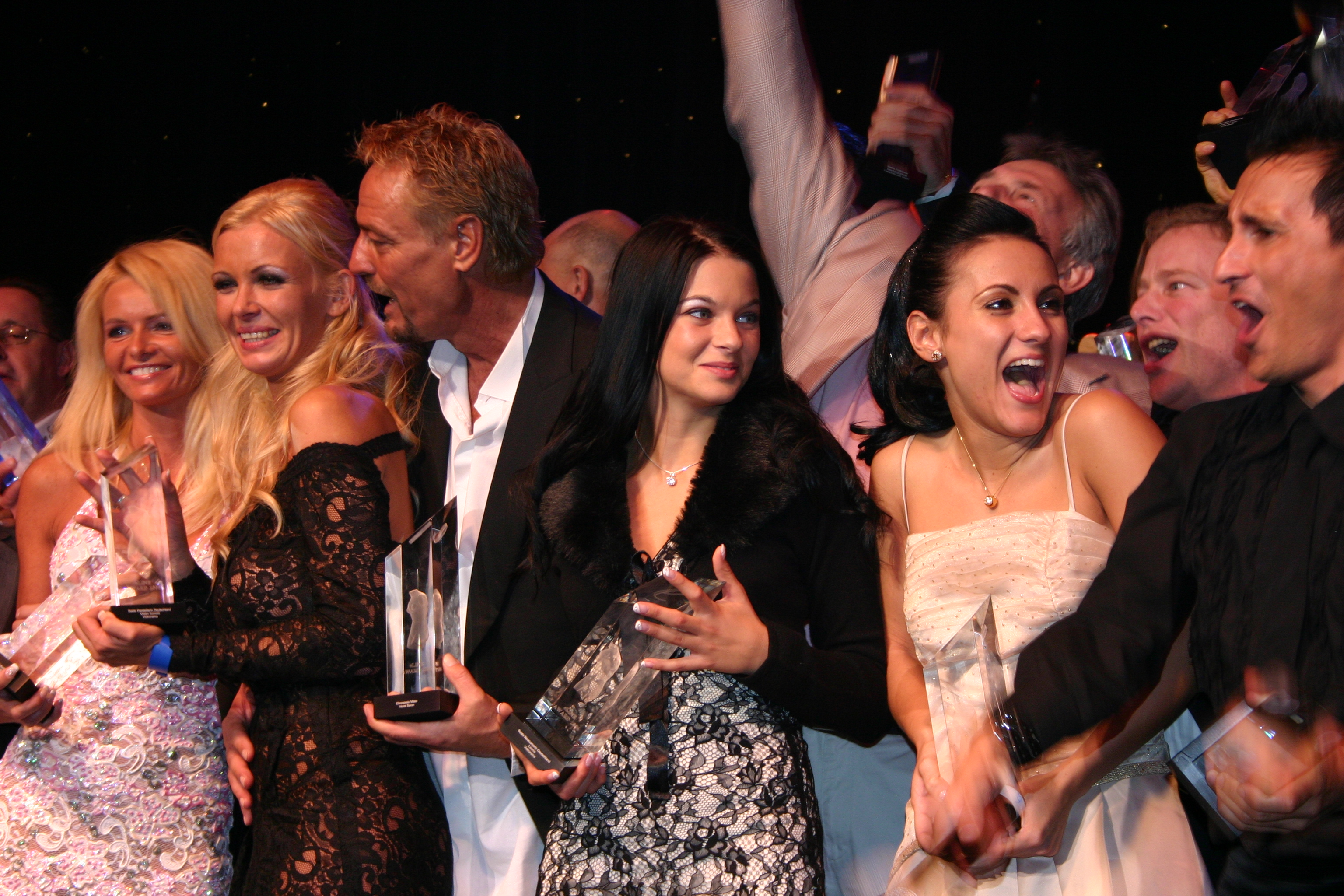 Several winners of the Eroticline Award 2006 (Eroticline Award = Germany's main porn award). Starting from left: Nicoletta Blue, Vivian Schmitt, Horst Baron, Leonie Saint, Jana Bach and Conny Dachs